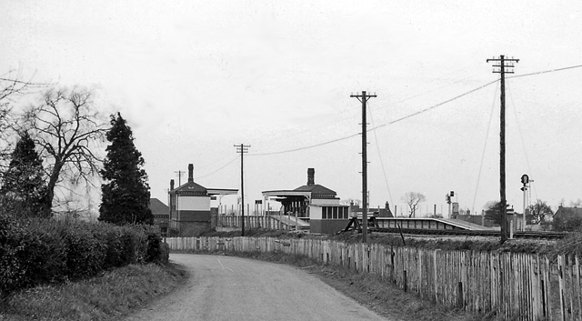 Blake Street Station. View northward, towards Lichfield; ex-LNW Birmingham - Sutton Coldfield - Lichfield - Burton line, now on electrified Birmingham Crossrail Line.